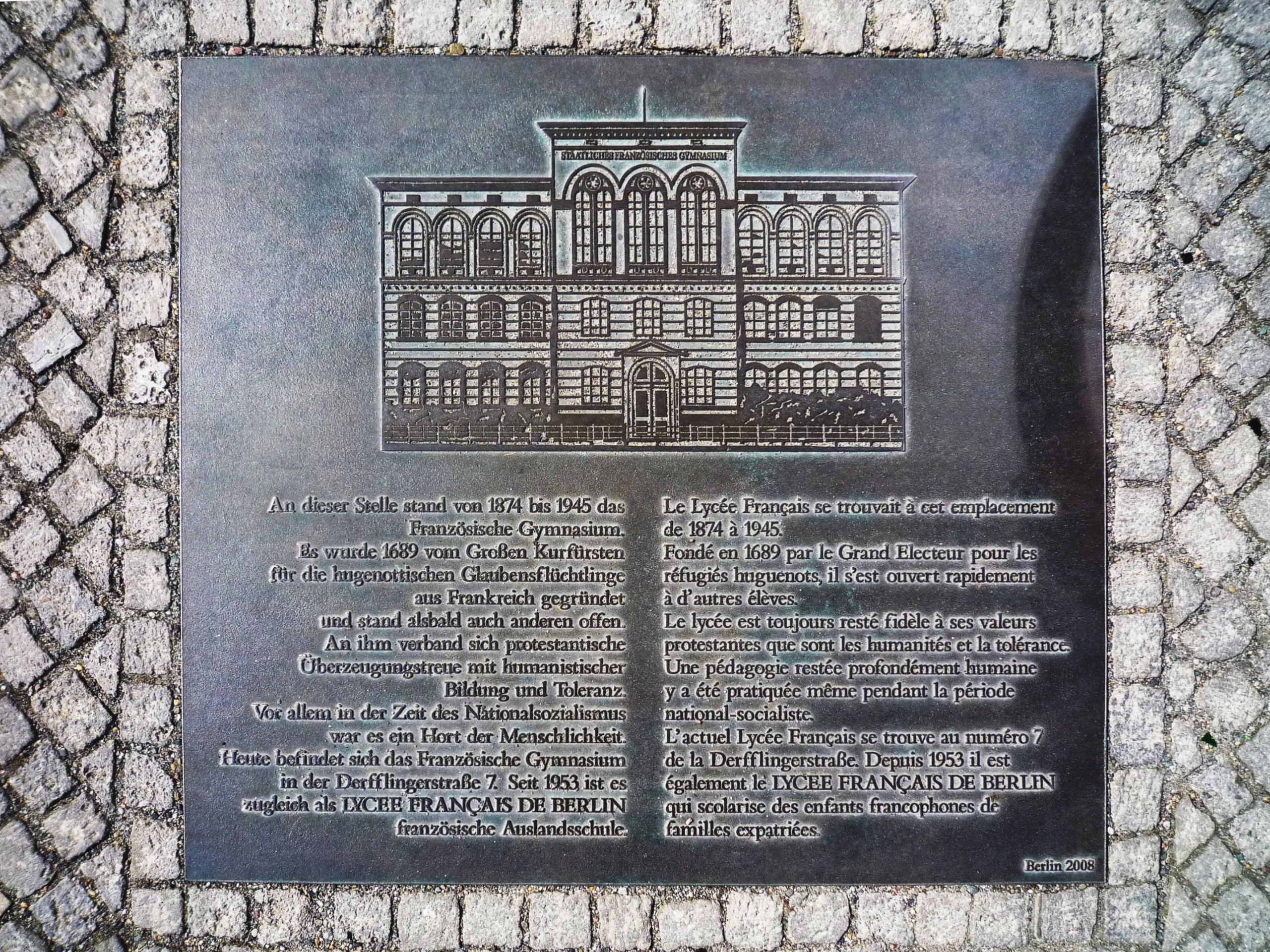 Memorial tablet at the former location of the "Französisches Gymnasium" in Berlin, Reichstagsufer.